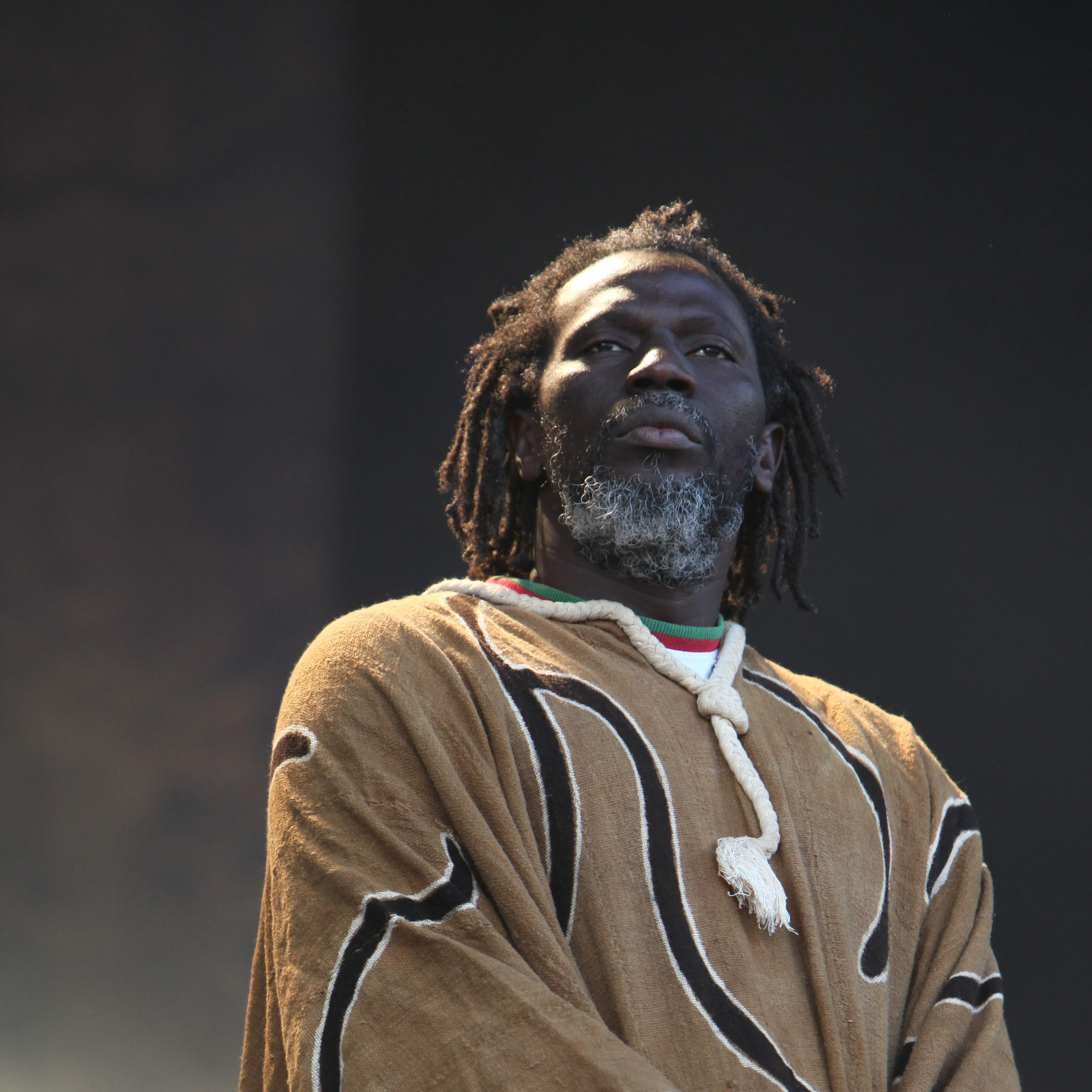 Tiken Jah Fakoly at the Eurockéennes de Belfort 2011 The making of this document was supported by Wikimedia CH. (Submit your project!) For all the files concerned, please see the category Supported by Wikimedia CH.